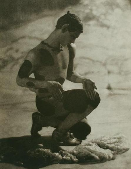 Ballet dancer Nijinsky as the Faun